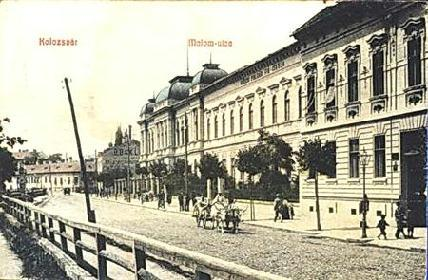 The one building of Technical Univetity in Cluj (Baritiu street), Romania. Former technical school and museum built between 1896-1898, architect L. Pákei